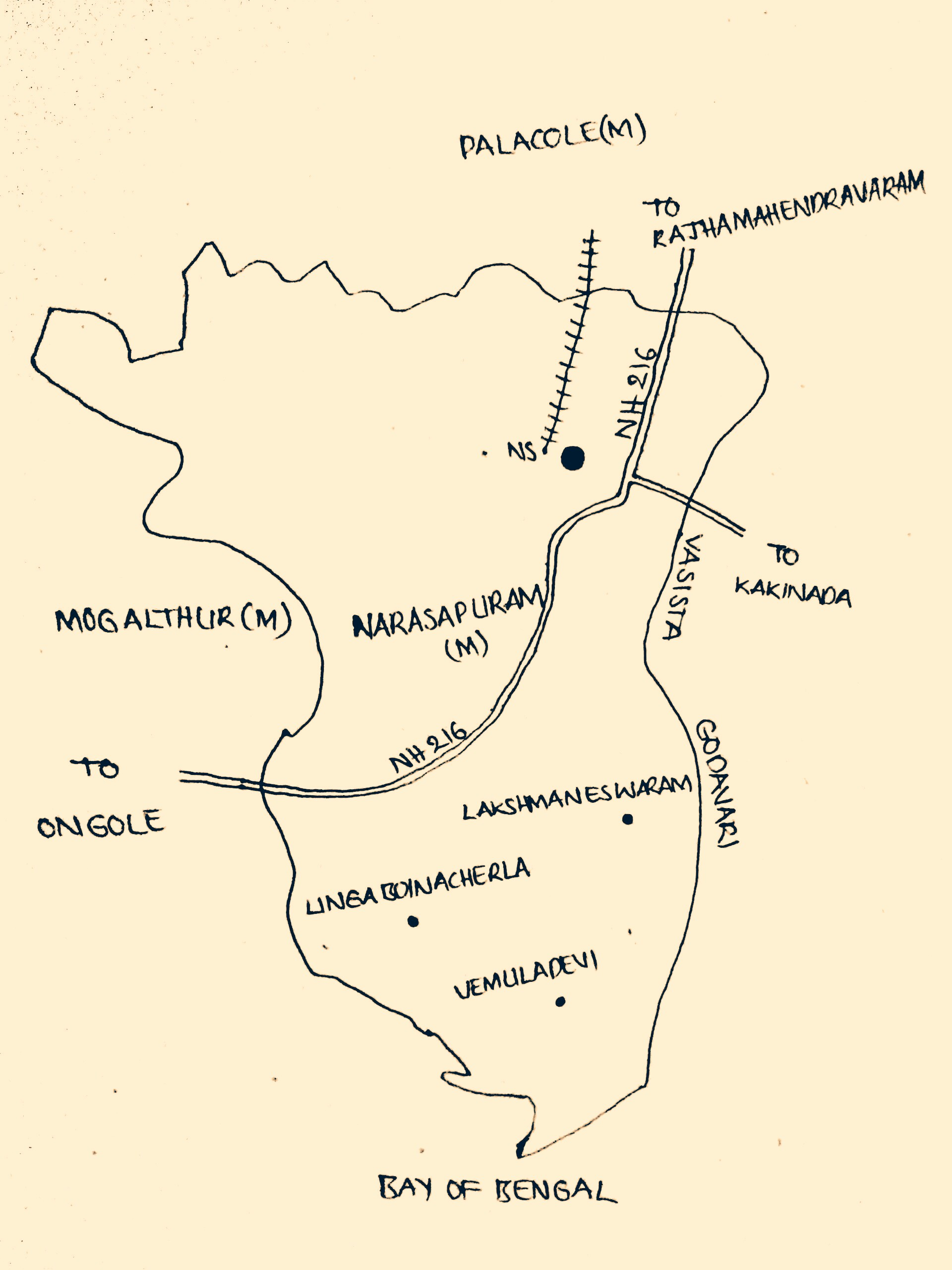 Narsapur Map